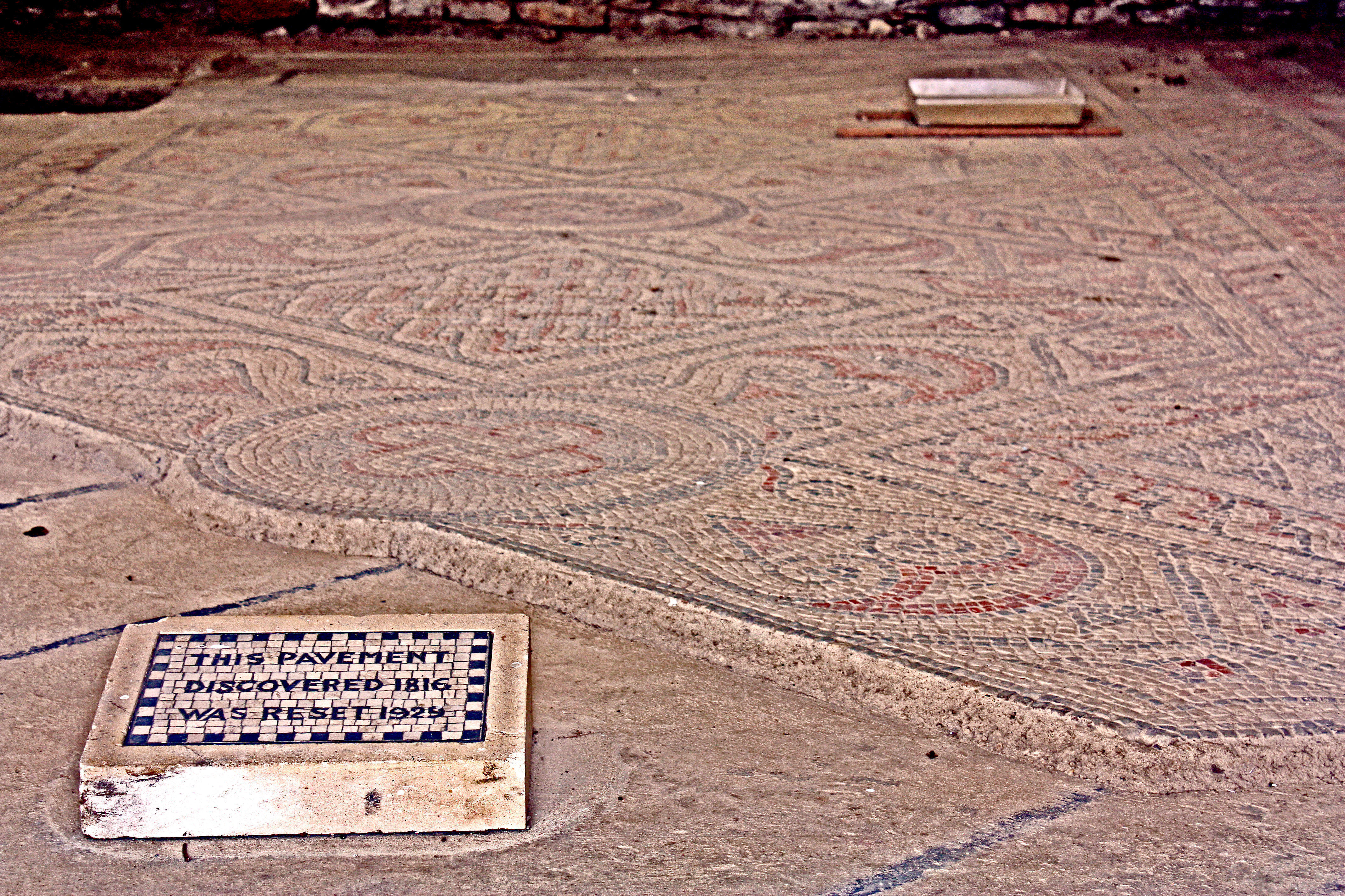 Britain was an outpost of the Roman Empire and is still criss-crossed with their straight roads. One mile from Akeman Street, the villa at North Leigh now lies deserted down a narrow cart track in the depths of the Cotswold countryside. Building commenced 2000 years ago and it was lived in for about 400 years.